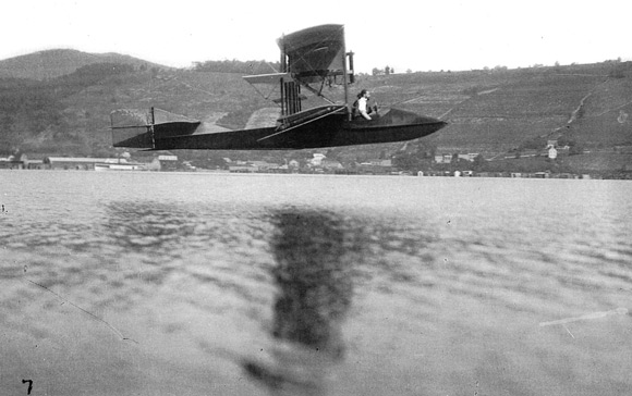 Photograph of the Curtiss Flying Fish (Flying Boat Nr.2) over Lake Keuka, New York State.